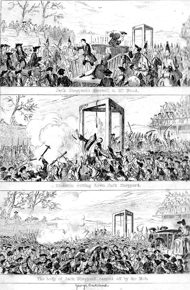 "The Last Scene" - engravings by George Cruikshank, to illustrate the serialised novel Jack Sheppard by William Harrison Ainsworth, published in Bentley's Miscellany from January 1839 . The captions read: "Jack Sheppard's Farewel)